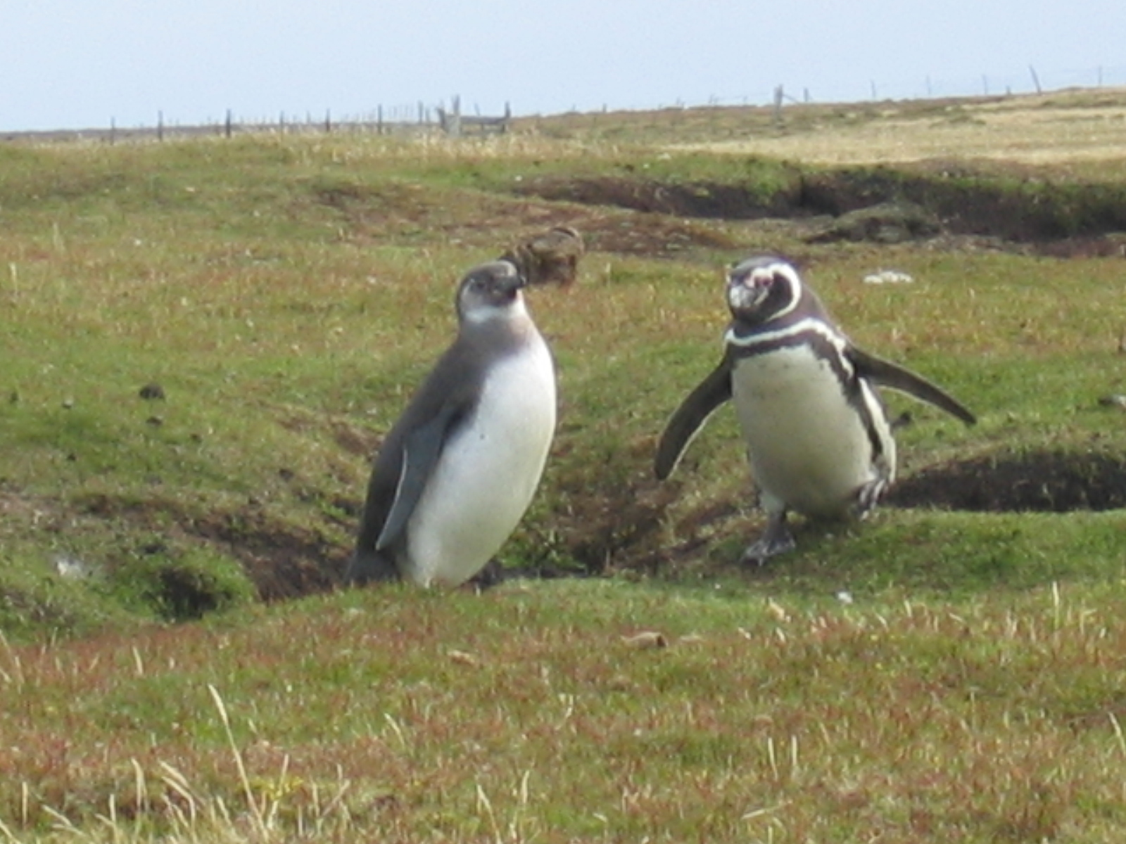 moulting juvenile Sphenicus magellanicus with adult on George Island (Falklands/Malvinas)